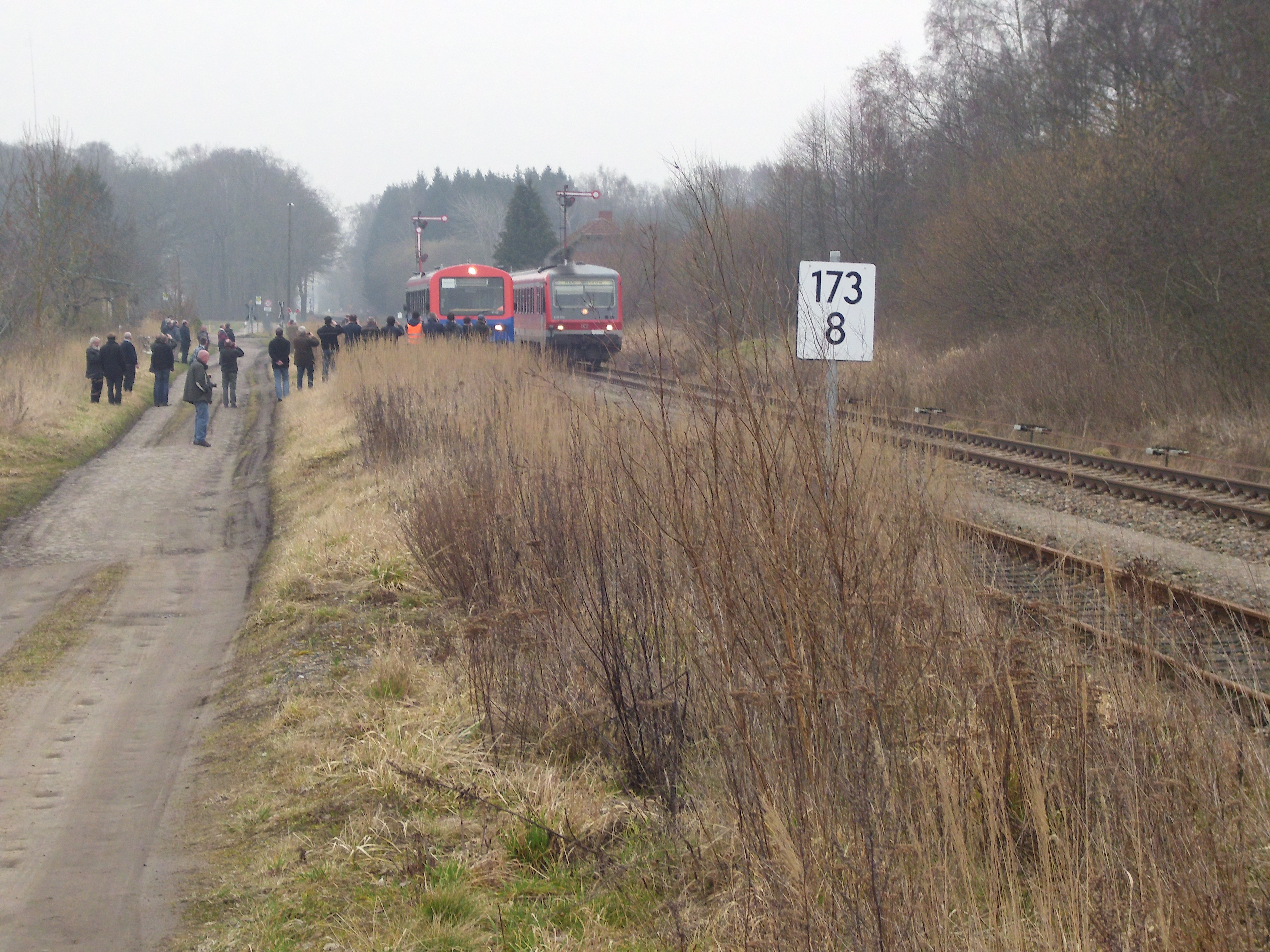 Railfans observing a regular DB train (right) passing a charter train of EDB at Grischow, Germany, on Bützow–Szczecin railway. The station building is at the other side of the station, behind the photographer.